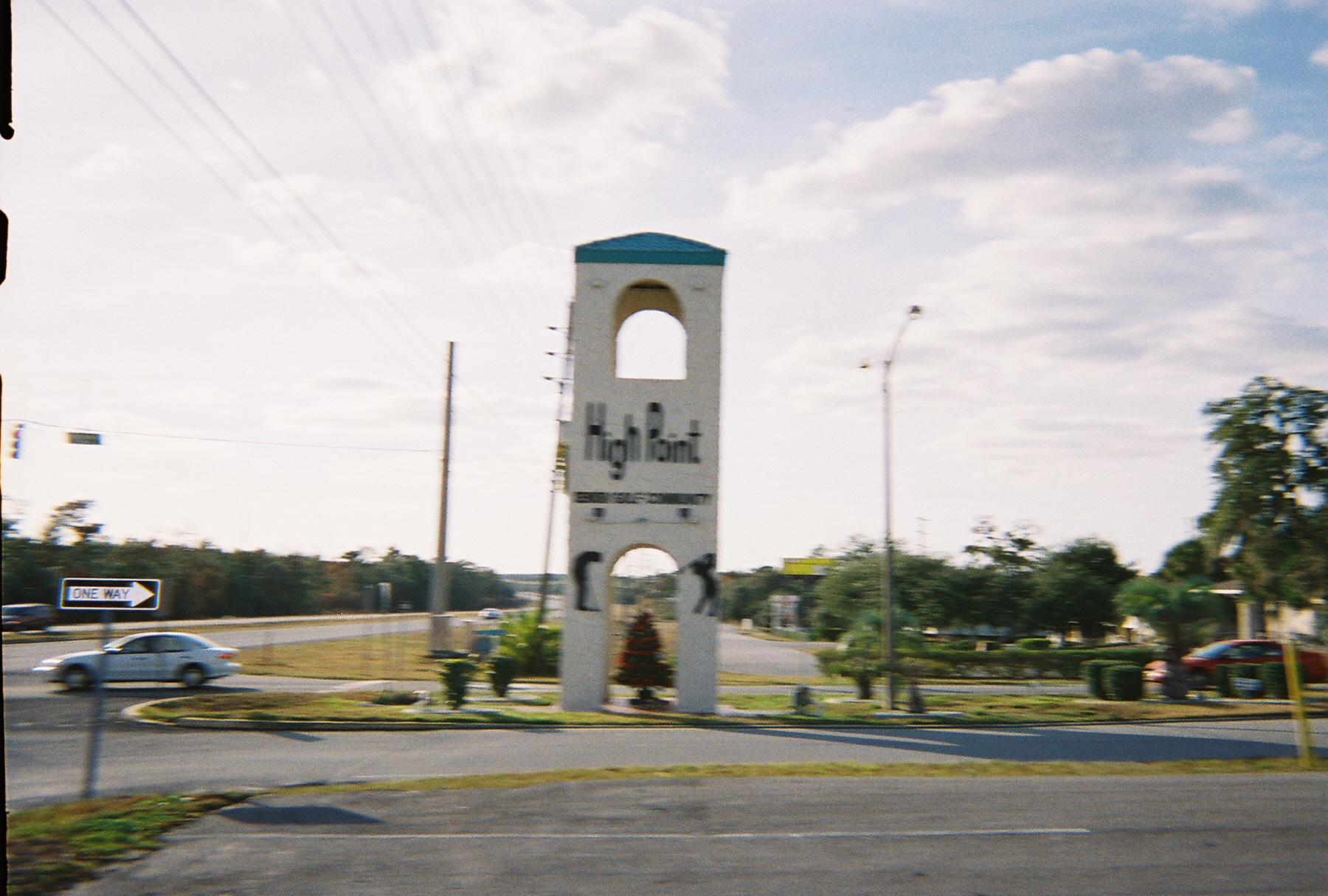 Second attempt at the towering sign at the Gateway to High Point, Hernando County, Florida at the intersection of Florida State Road 50 and High Point Boulevard. If you think this image is bad, you should've seen my first attempt.